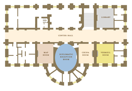 Floor plan of the White House ground floor, which features the Diplomatic Reception Room, White House Library, Map Room, Vermeil Room, and China Room